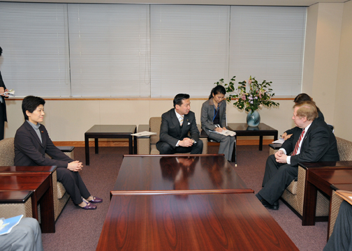 Robert R. King, Special Envoy for North Korean Human Rights Issues, met Tetsurō Fukuyama, Senior Vice-Minister for Foreign Affairs, and Chinami Honda, Parliamentary Secretary for Foreign Affairs, in Japan on January 15, 2010.